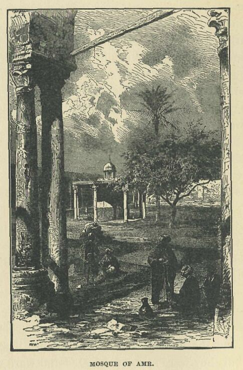 Drawing of the Mosque of Amr